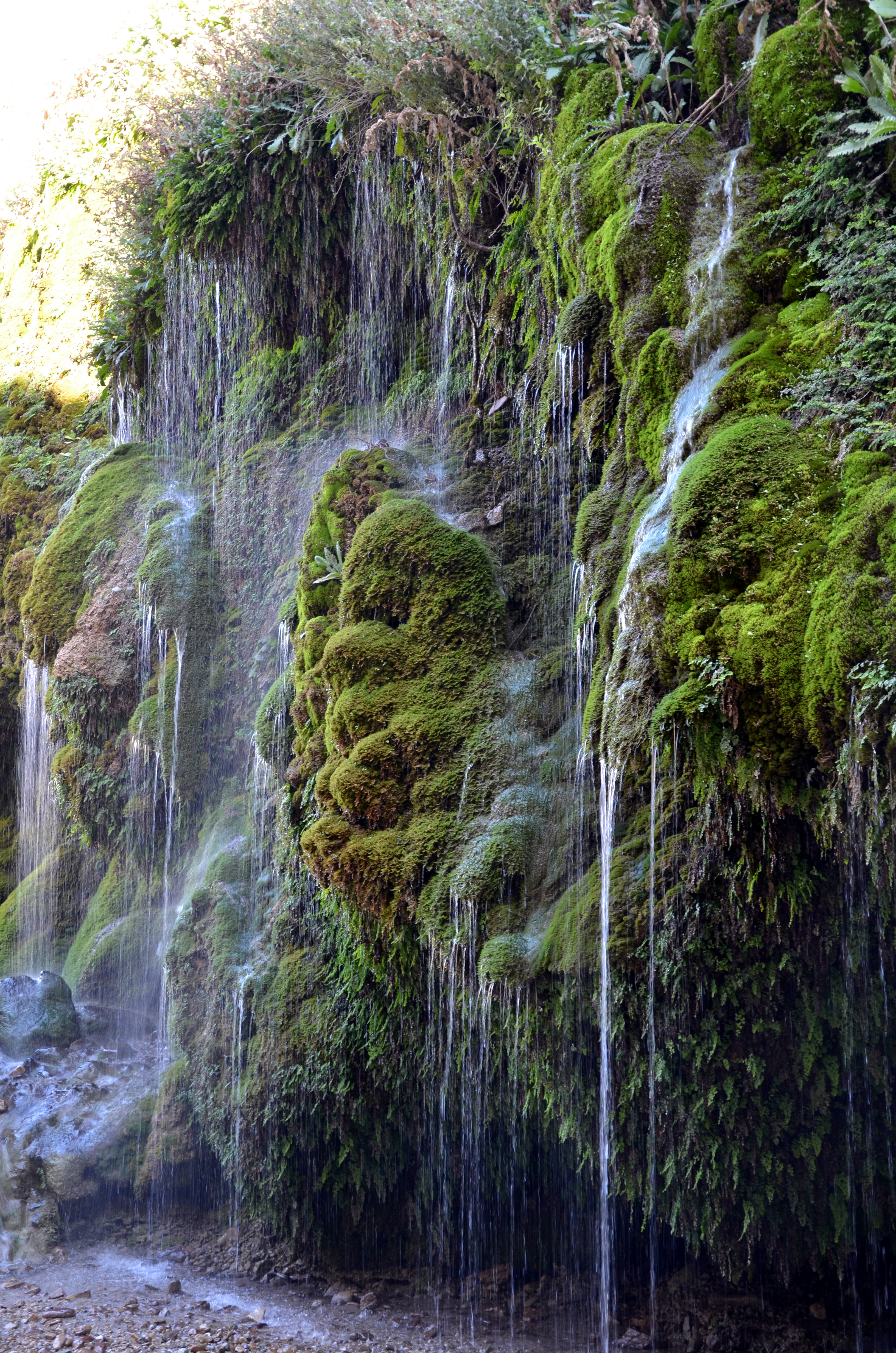 Aras Jolfa - Asiyab Kharabeh Waterfall